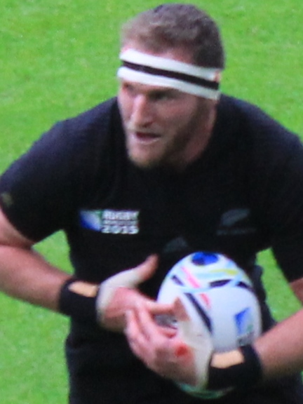 New Zealand international rugby union footballer Kieran Read